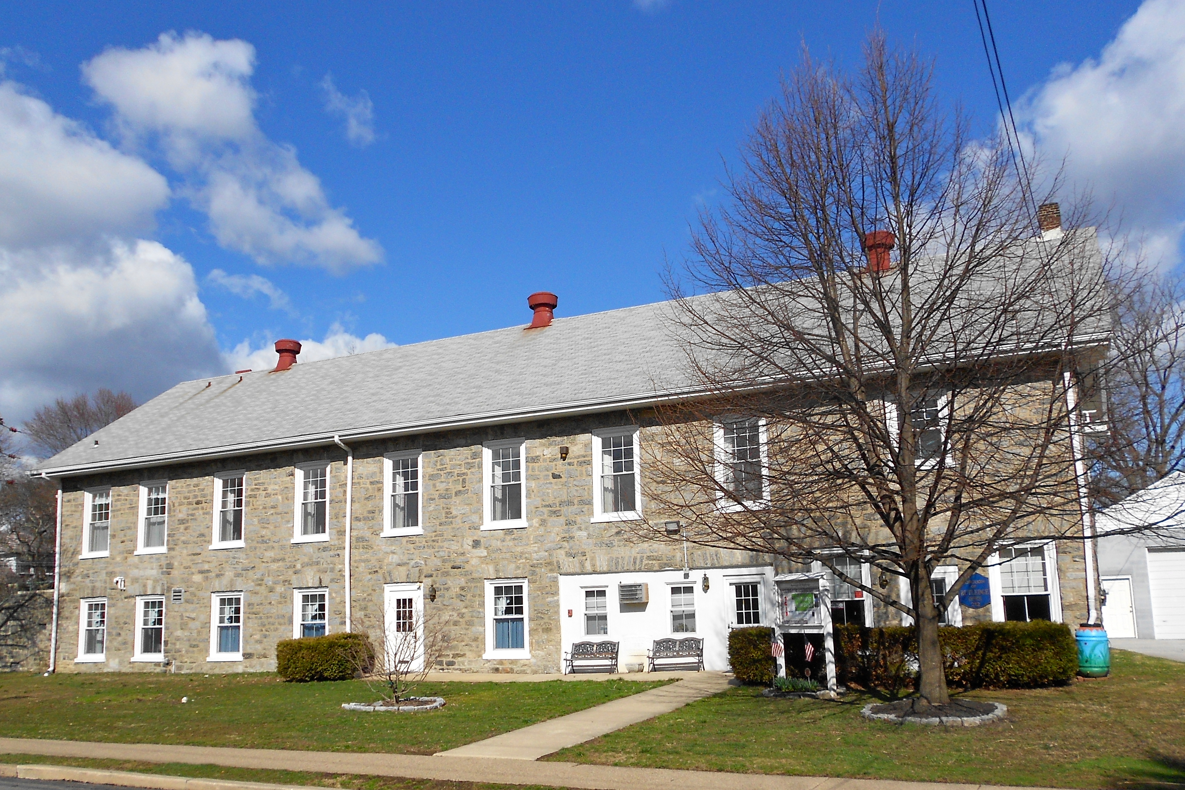 Borough Hall in Rutledge, Delaware County, Pensylvania